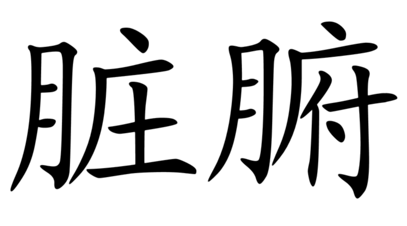 zàng-fǔ ideograms stipulated by Traditional Chinese Medicine (TCM). Simplified